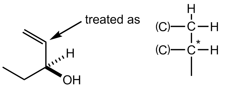 Describes how a double bond is treated for R/S nomenclature using these rules